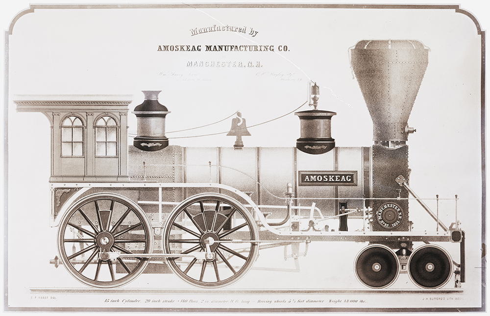 Title: [Amoskeag' locomotive, No. 92, Amoskeag Manufacturing Company] Creator: E. P. Abbot (delineator) Date: 1853 Physical Description: 1 negative: glass plate, black and white; 20 x 25 cm. File: ag1982_0212_055_01_amoskeag_sm_opt.jpg Rights: Please cite Southern Methodist University, Central University Libraries, DeGolyer Library when using this image file. A high-quality version of this file may be obtained for a fee by contacting . For more information, see: View Railroads - Photographs, Manuscripts, and Imprints